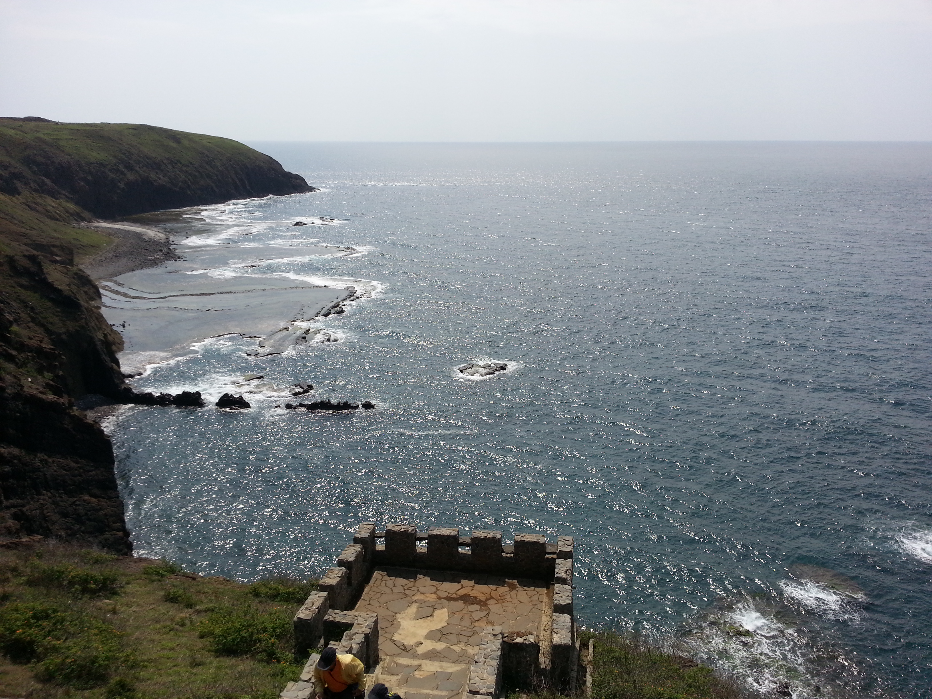 It is the dragon on the sea